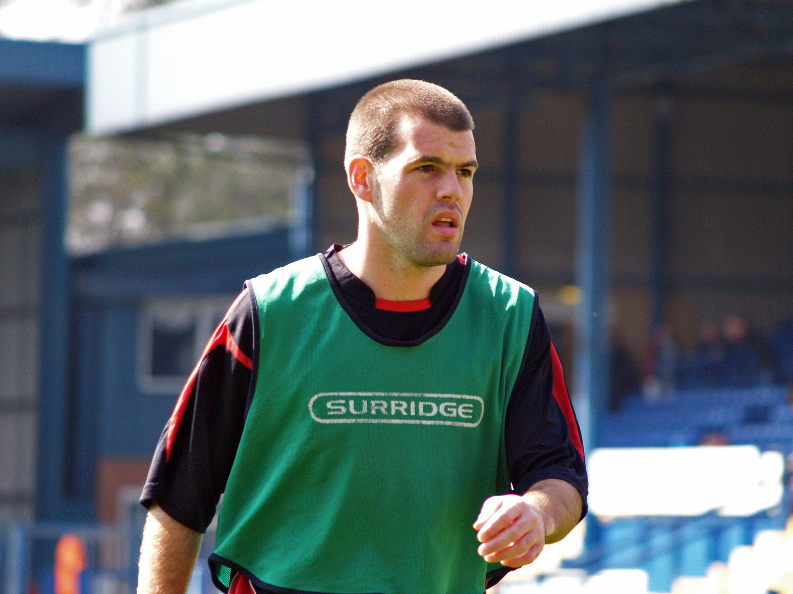 Bury FC midfielder John Welsh during the warm up at Gigg Lane, home of Bury Football Club prior to the Bury vs. Macclesfield Town game. Saturday 18th April 2009